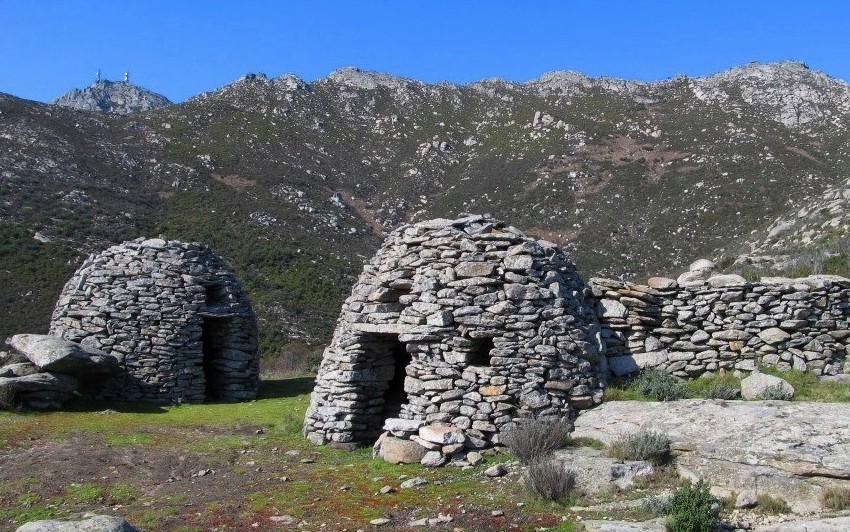 Elba island